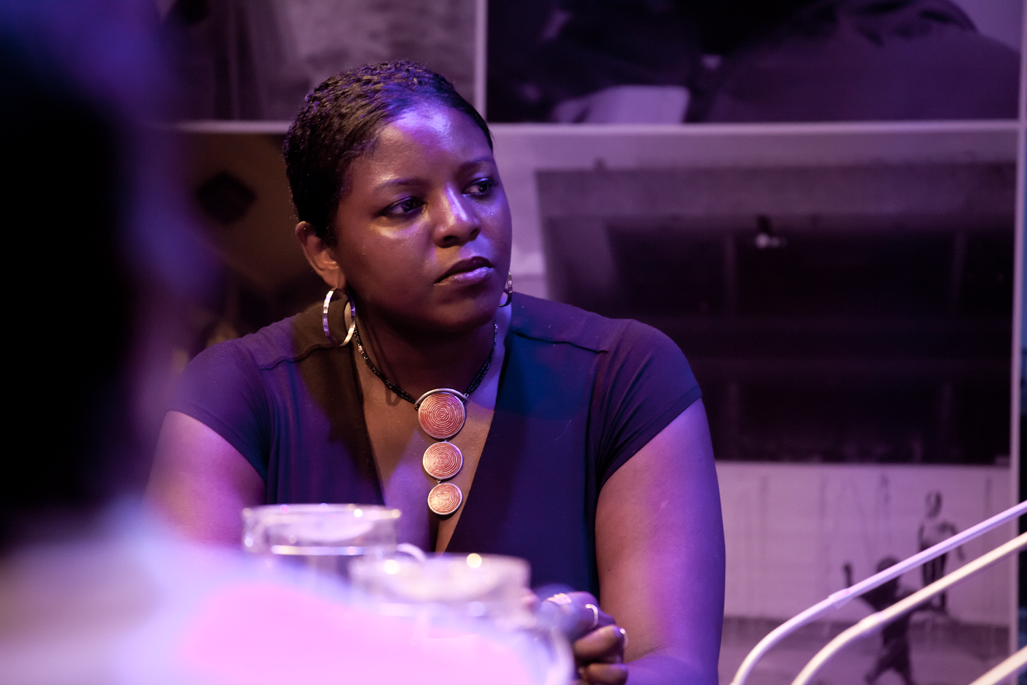 Director Yoruba Richen